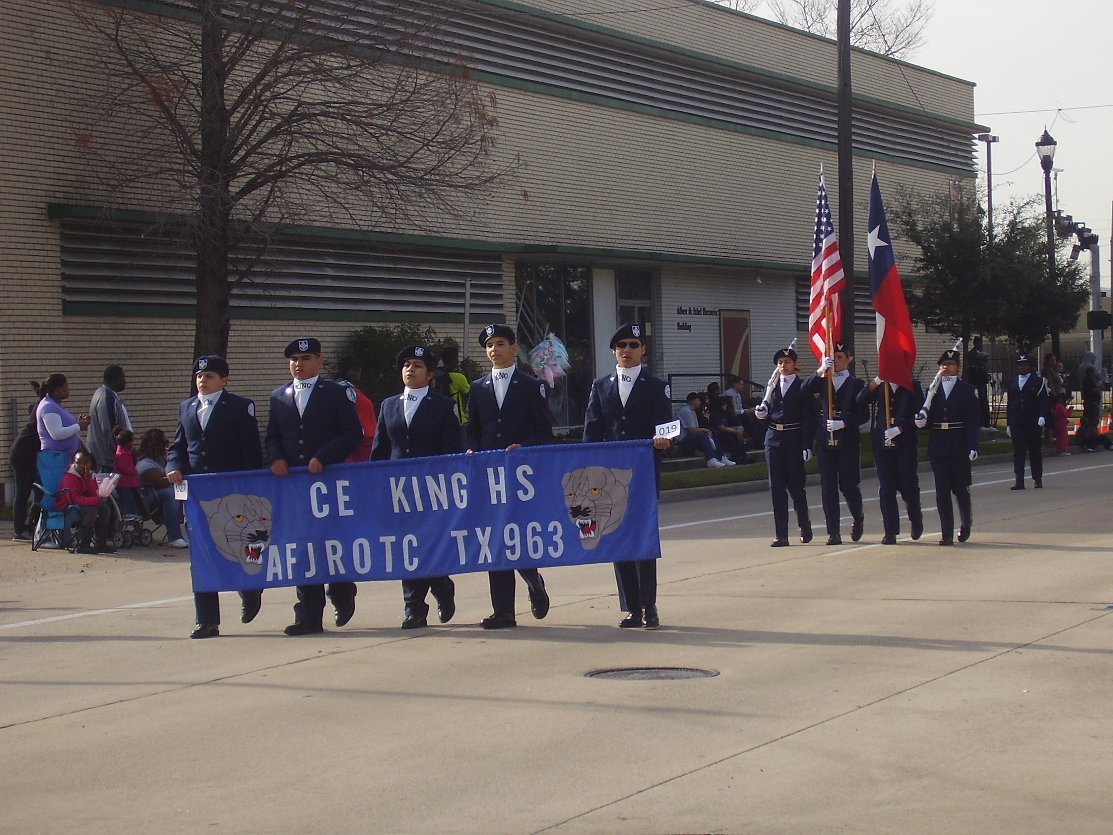 Cyril E. King High School JROTC at the 2013 MLK day parade in Midtown Houston